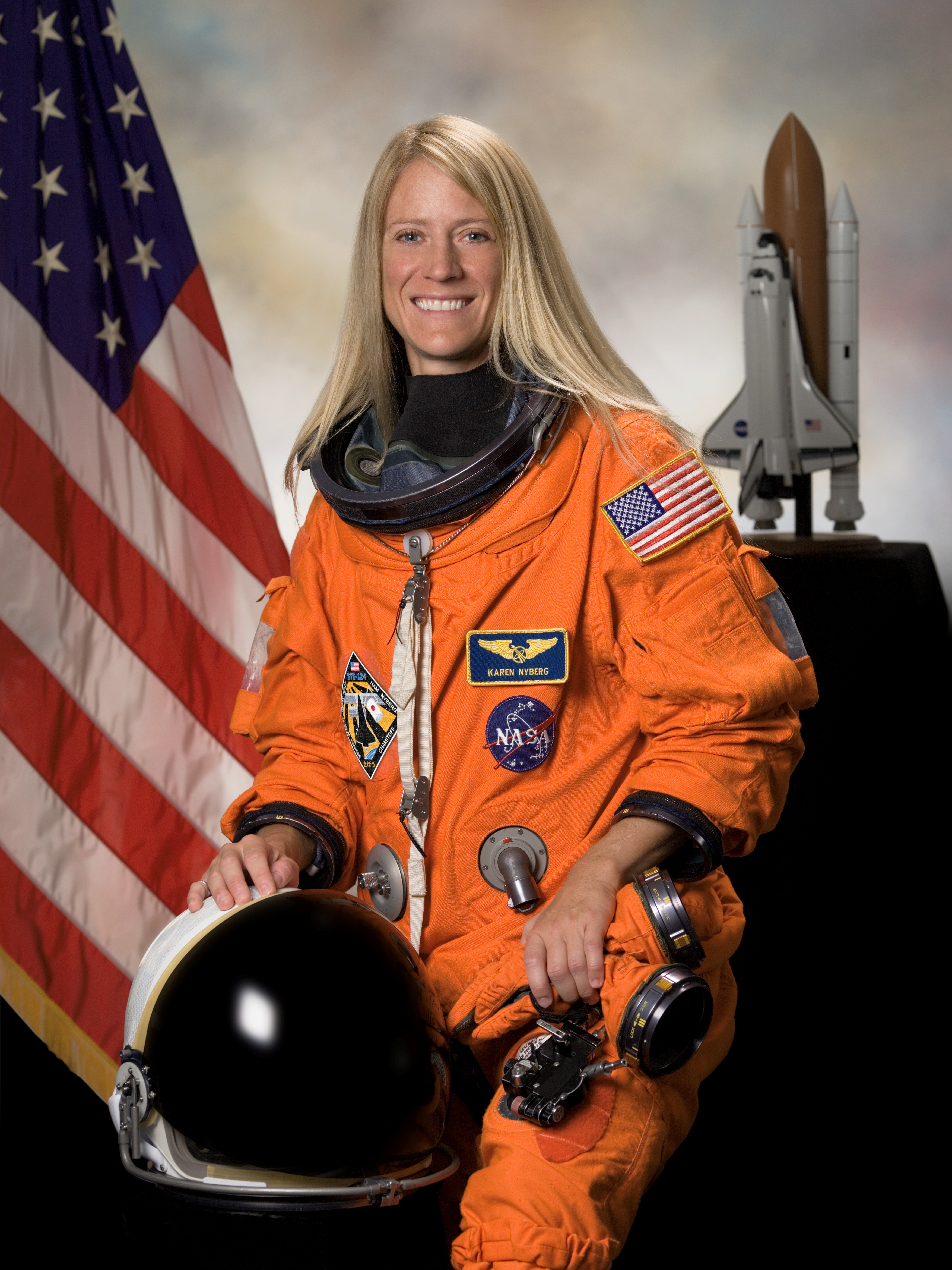 Official portrait photo of NASA astronaut Karen Nyberg, a mission specialist of STS-124.